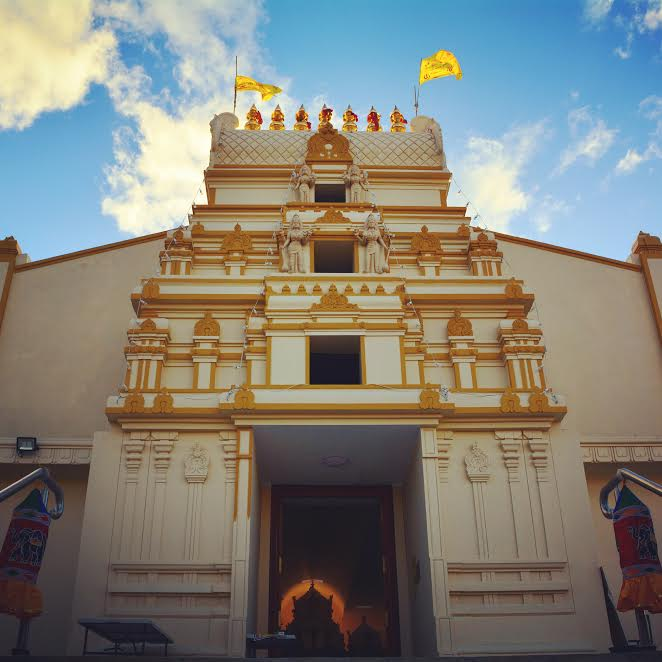 Sydney Durga Temple Rajagopuram